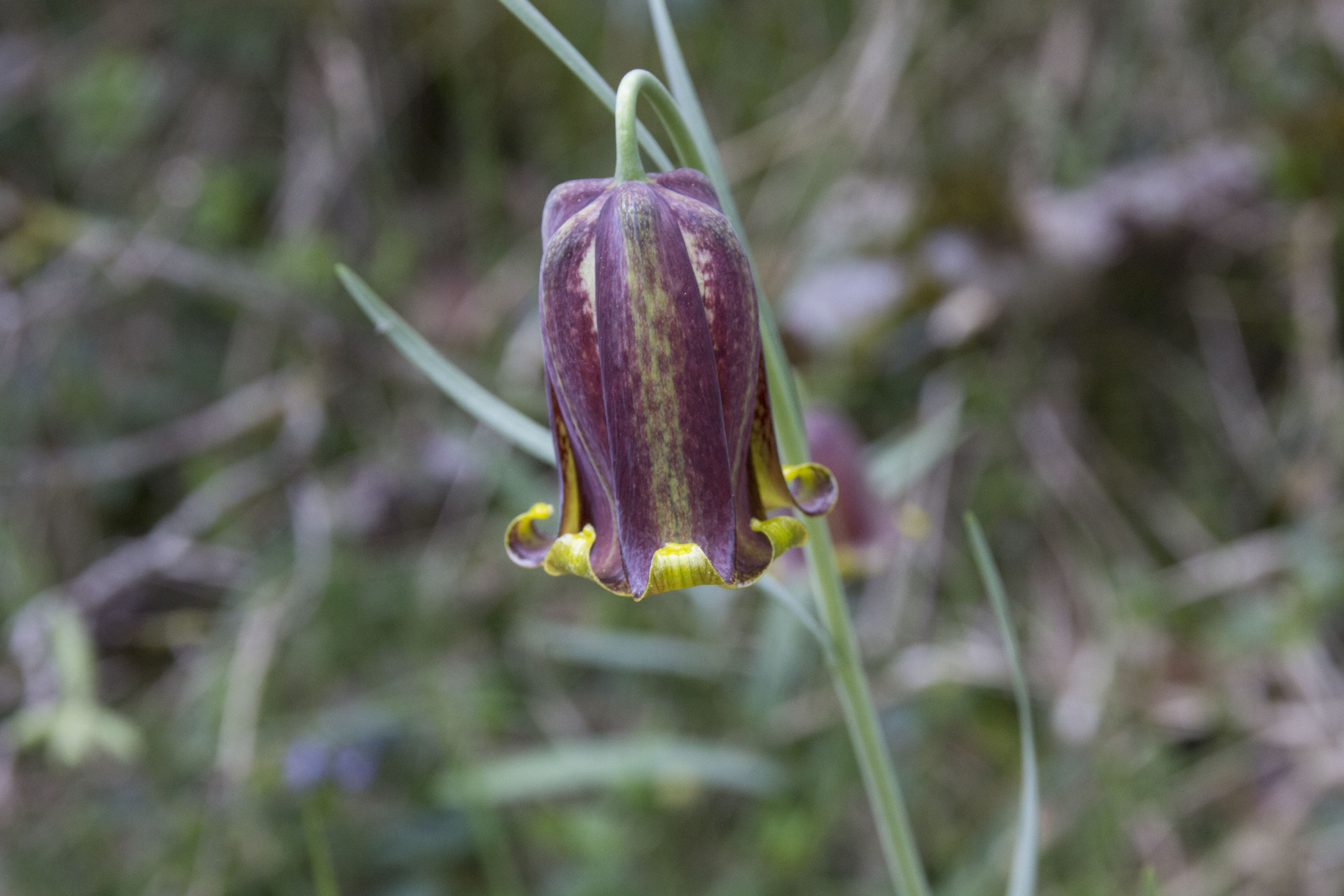 Pyrenean fritillary